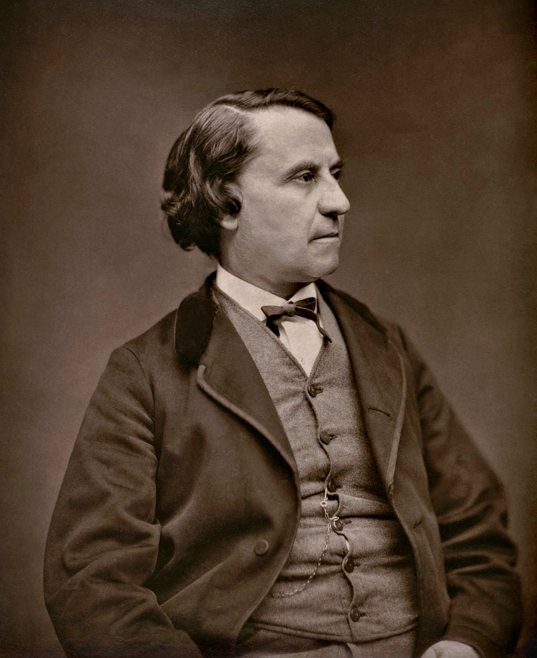 Louis Blanc, French journalist, politician and historian. He was a member of the provisionnal Government in 1848.(Cropped print.)